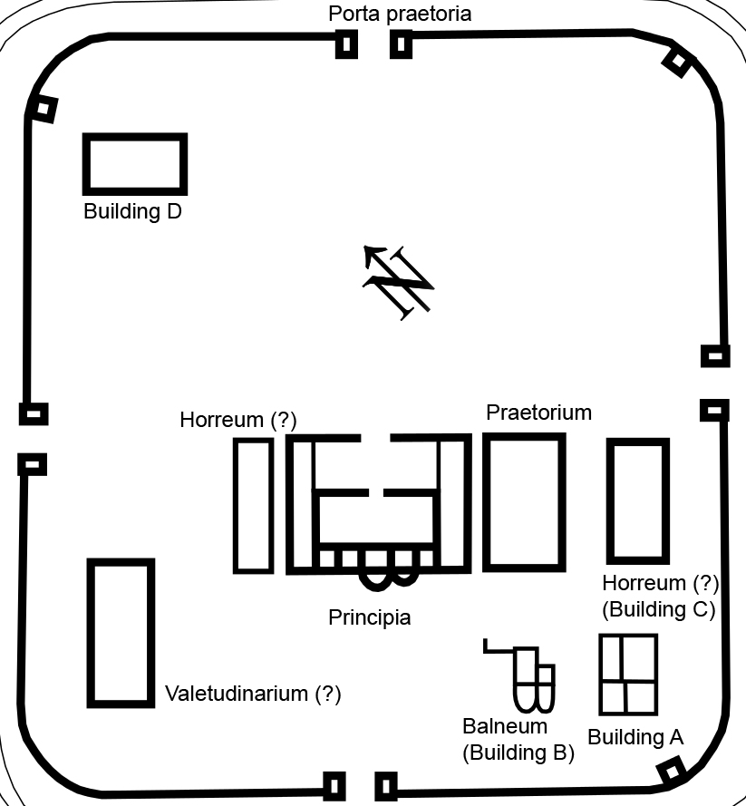 Plan of the Roman castra Cumidava